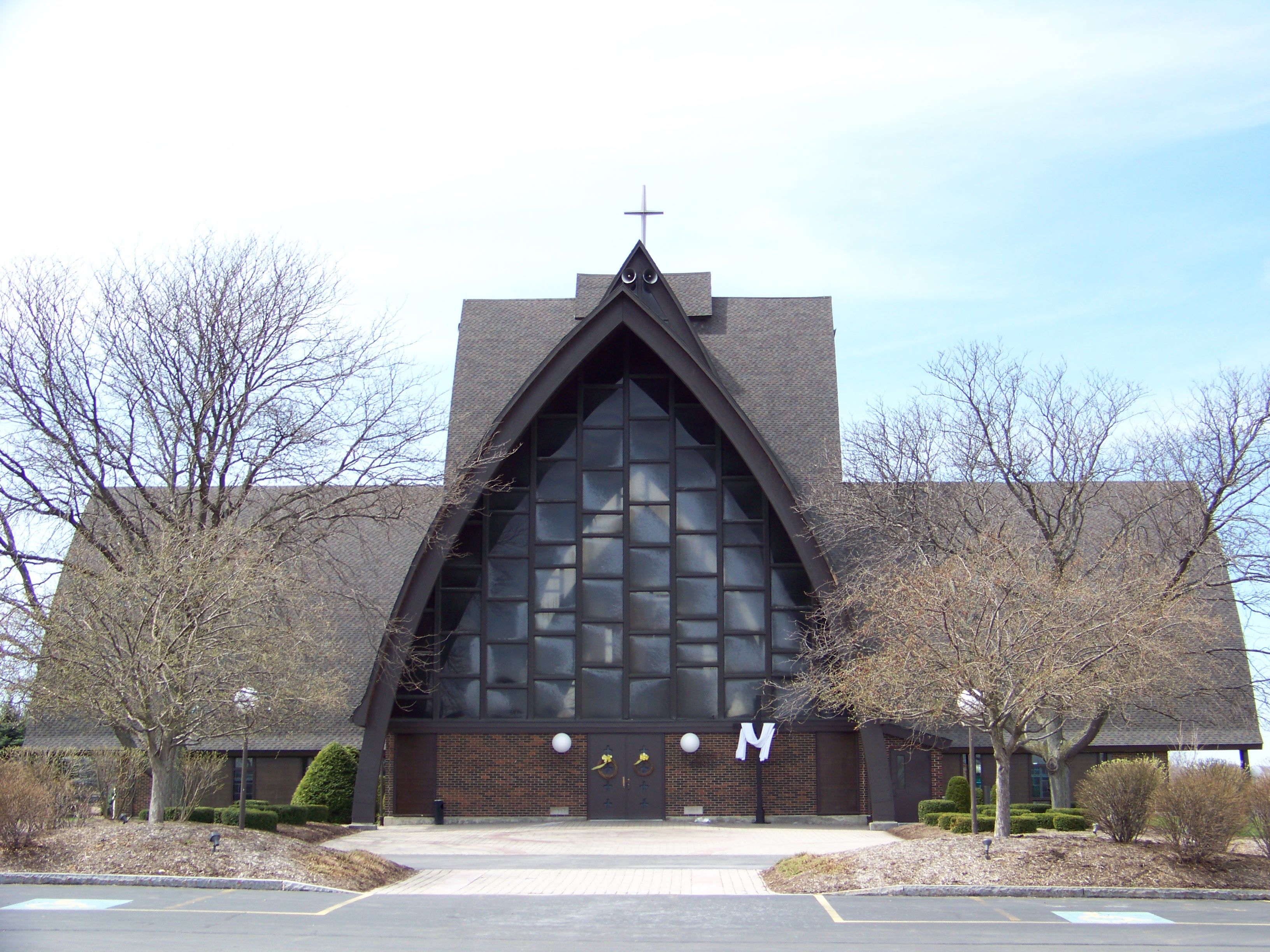 St Jospeh's church, Camillus, New York, from east parking lot